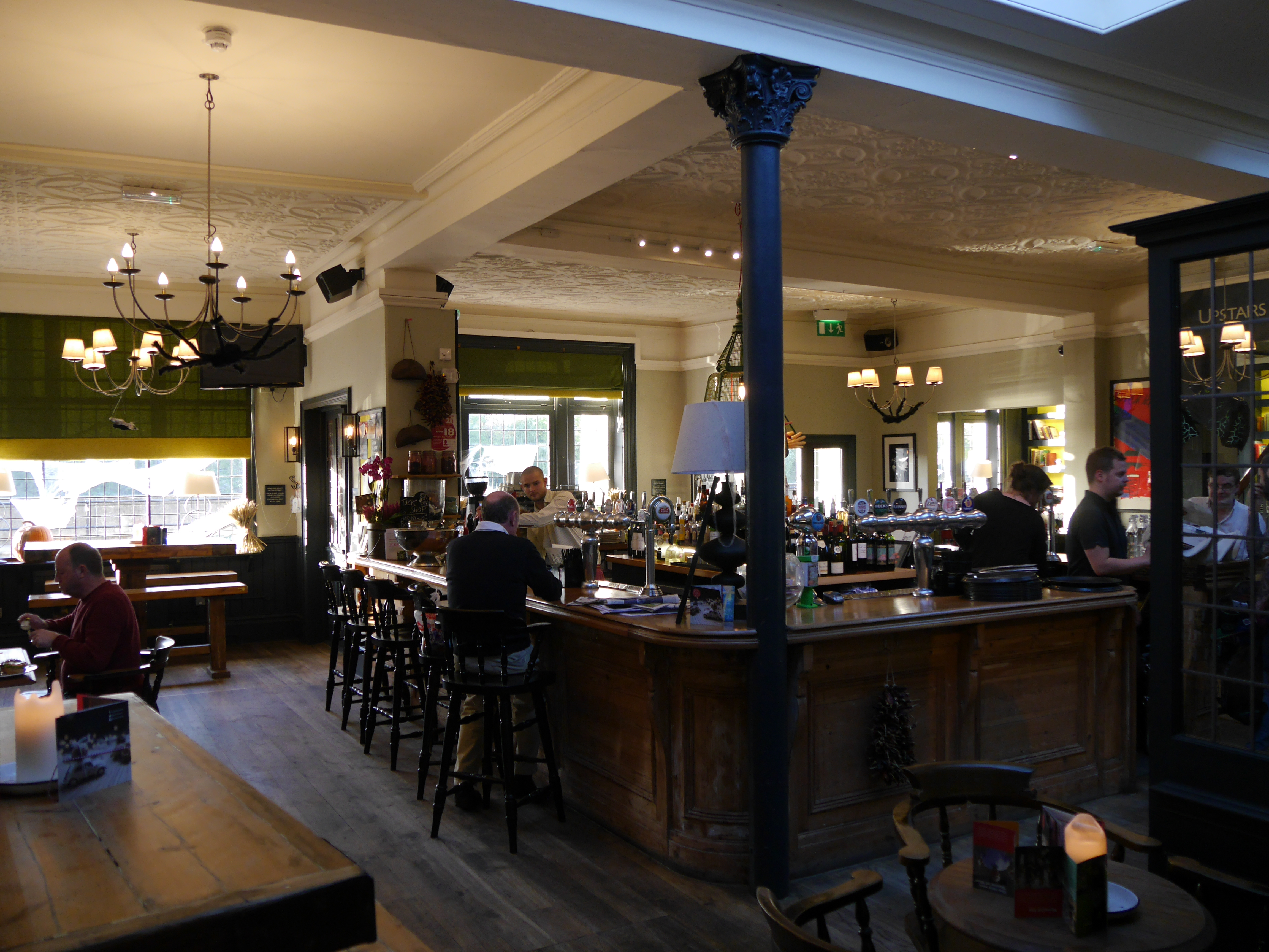 Bull's Head, Barnes, October 2014